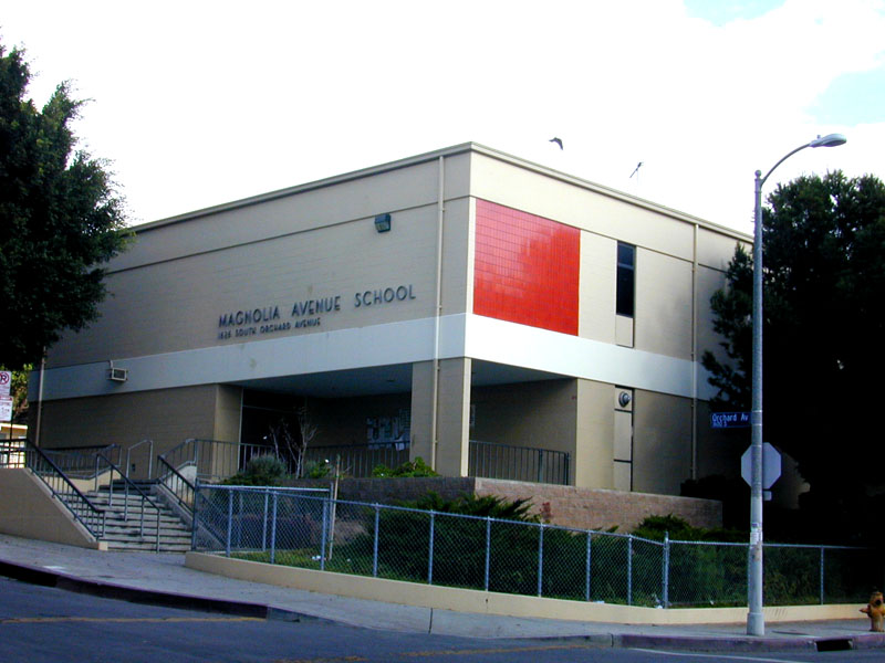 Magnolia Avenue School, Los Angeles CA